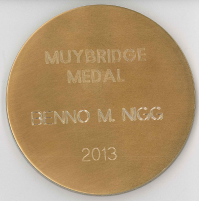 The Muybridge Medal, given by the International Society of Biomechanics.